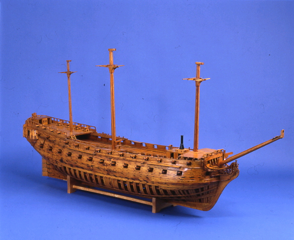 Contemporary model of Wasa, made by Chapman.